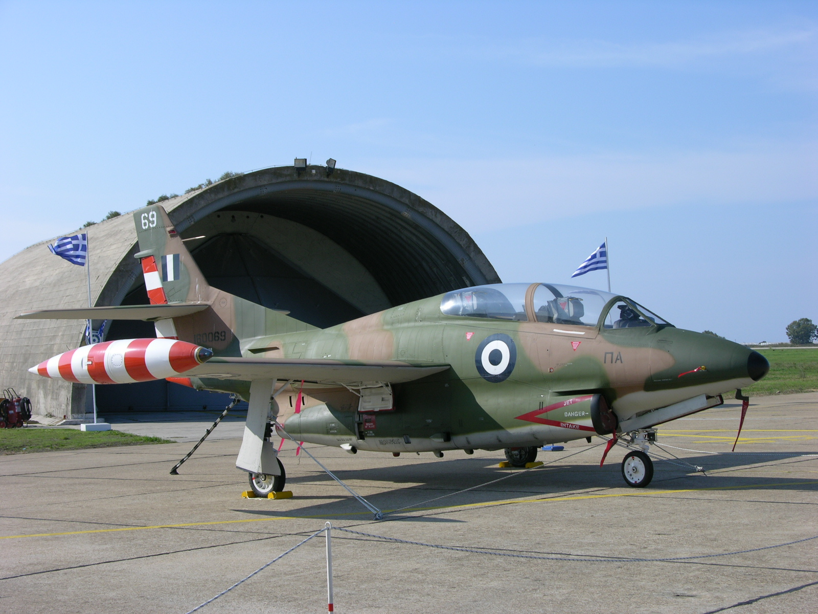 The earlier T-2Cs have largely been withdrawn from use with the Greek Air Force but the T-2E is still in use. All of them are based at Kalamata, where the olives come from, but this one was photographed at Preveza.